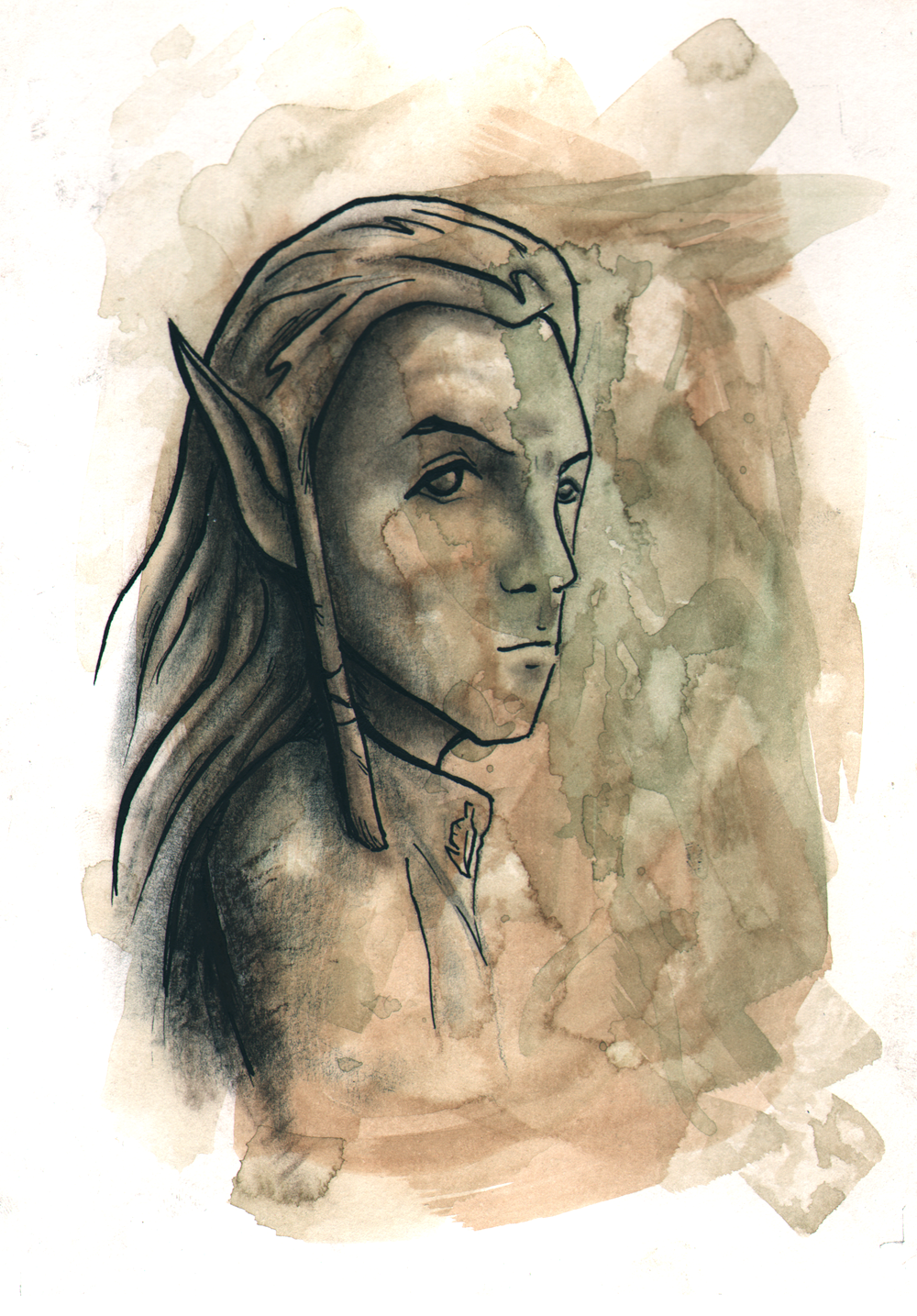 Illustration of Legolas, one of the characters in the Lord of the rings.